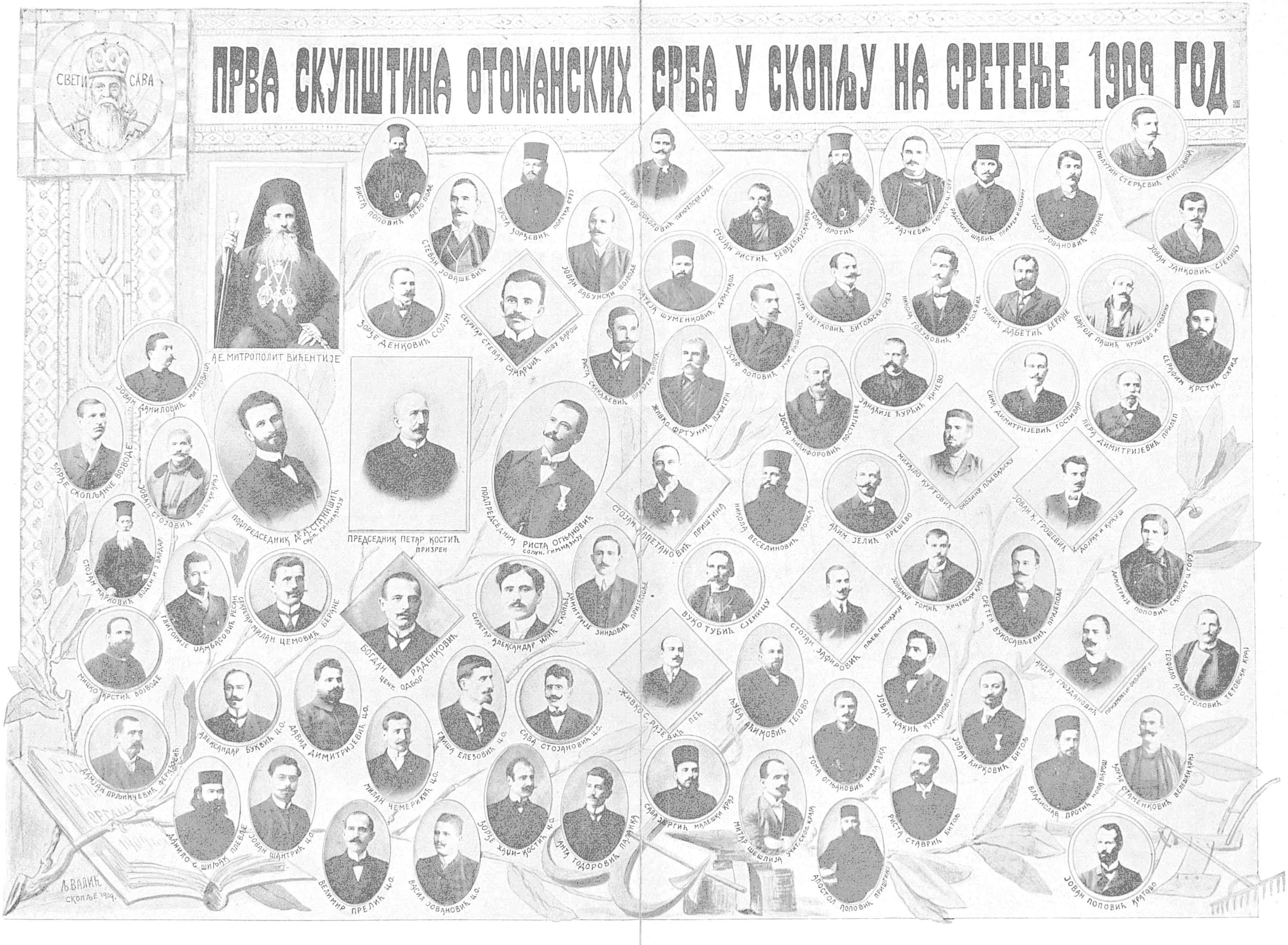 First Skupshtina of the Ottoman Serbs in 1909.